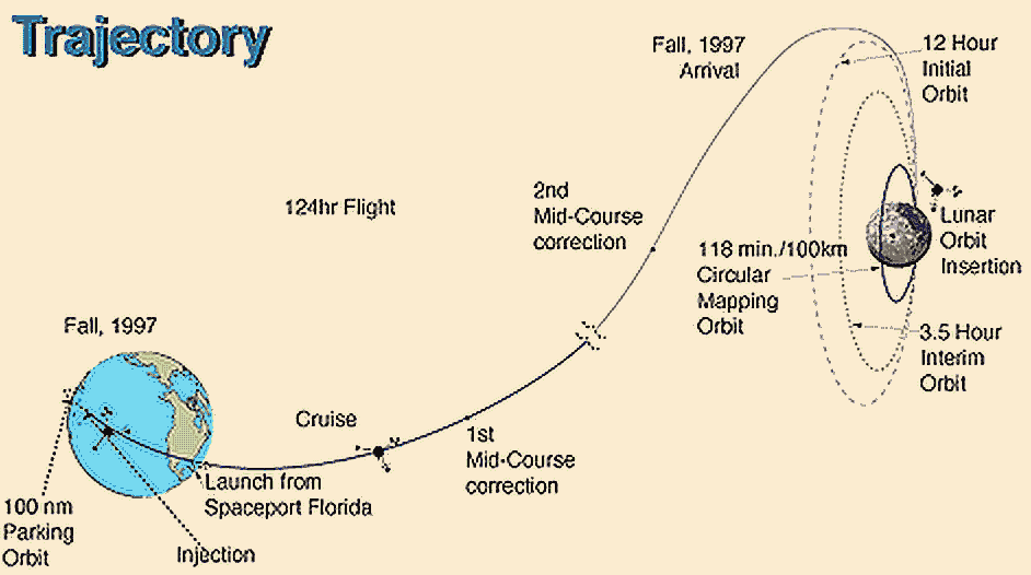 Edited version of File:Lunar prospector path.png